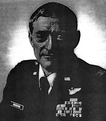 Col. Gustafson